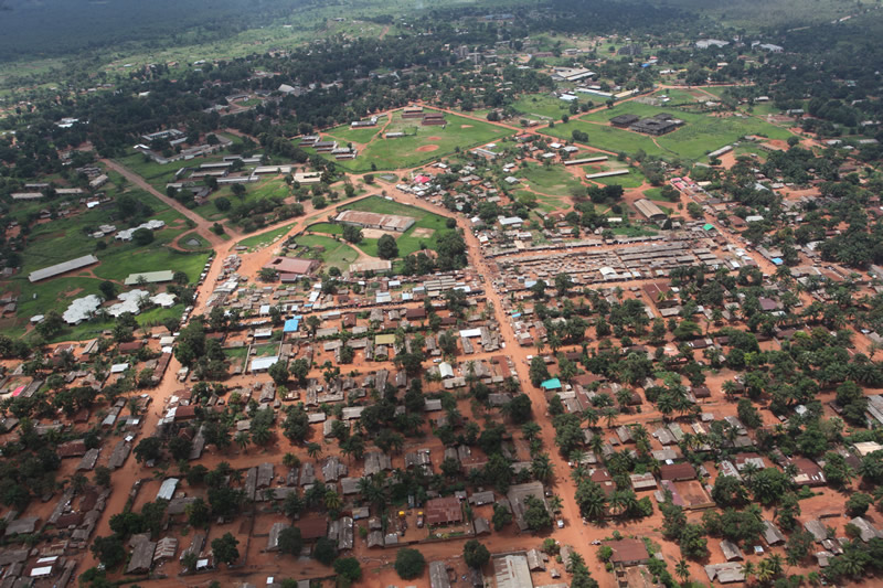 Gbadolite